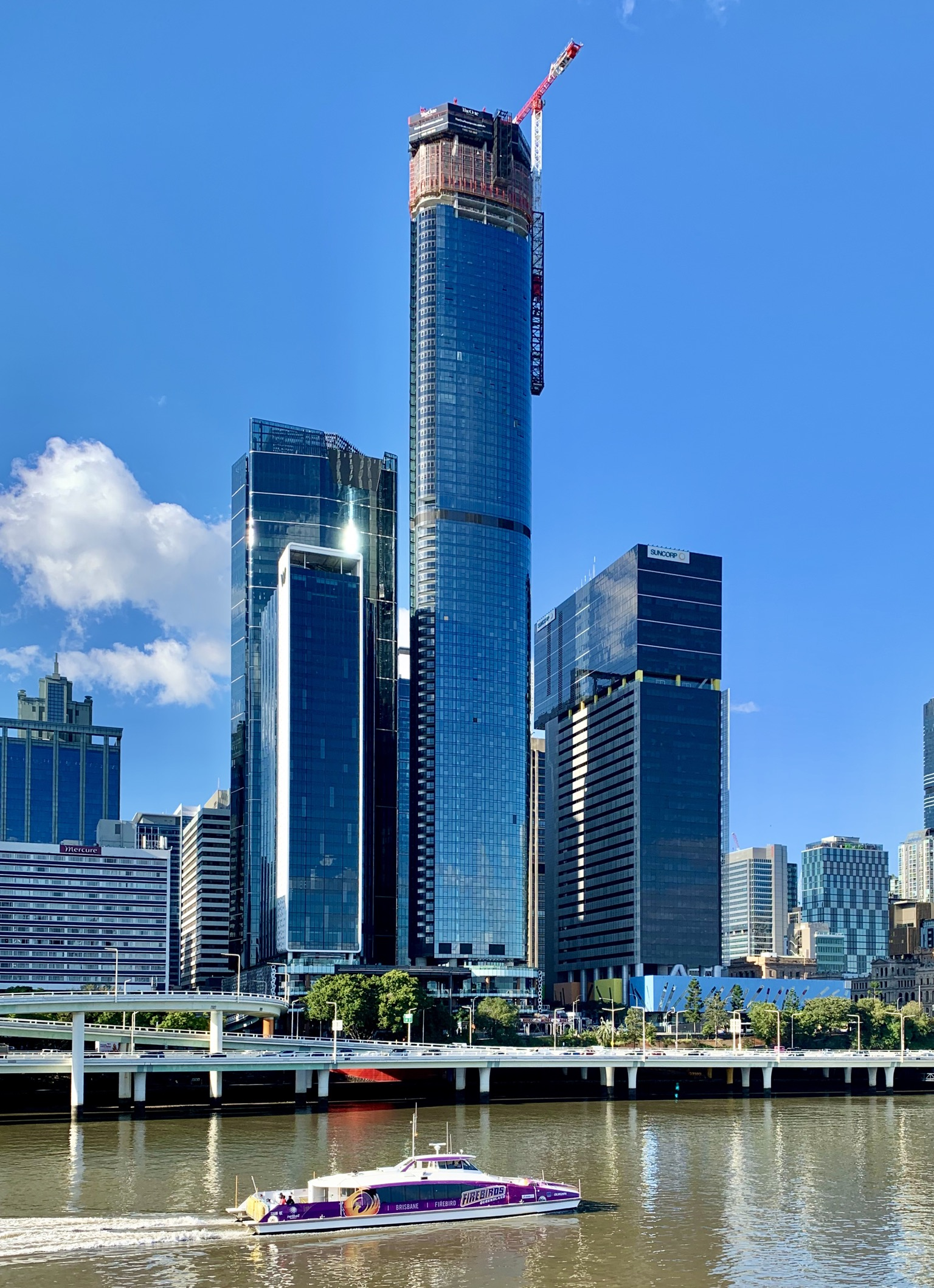 The One, Brisbane Quarter, Brisbane, July 2020